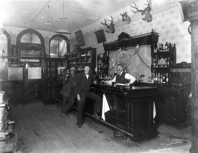 Interior view of the Toll Gate Saloon, Black Hawk, Colorado; shows arched entry windows, swinging front doors, stove in front left foreground, wooden floor with stains, and calendar from 1897 on entryway wall. Three men occupy the saloon. One bartender stands behind the bar; two others stand in front of the bar. The man in the foreground has his foot on the bar rail and holds a cigar. The man to the rear is leans on the bar and holds a beer in his right hand. Three mounted animal heads are over the center mirror; liquor bottles line the shelves on either side of the mirror behind the bartender. Brass spittoon appears on floor. "Bayle's Salted Buttercorn, St. Louis" sign appears in the foreground.